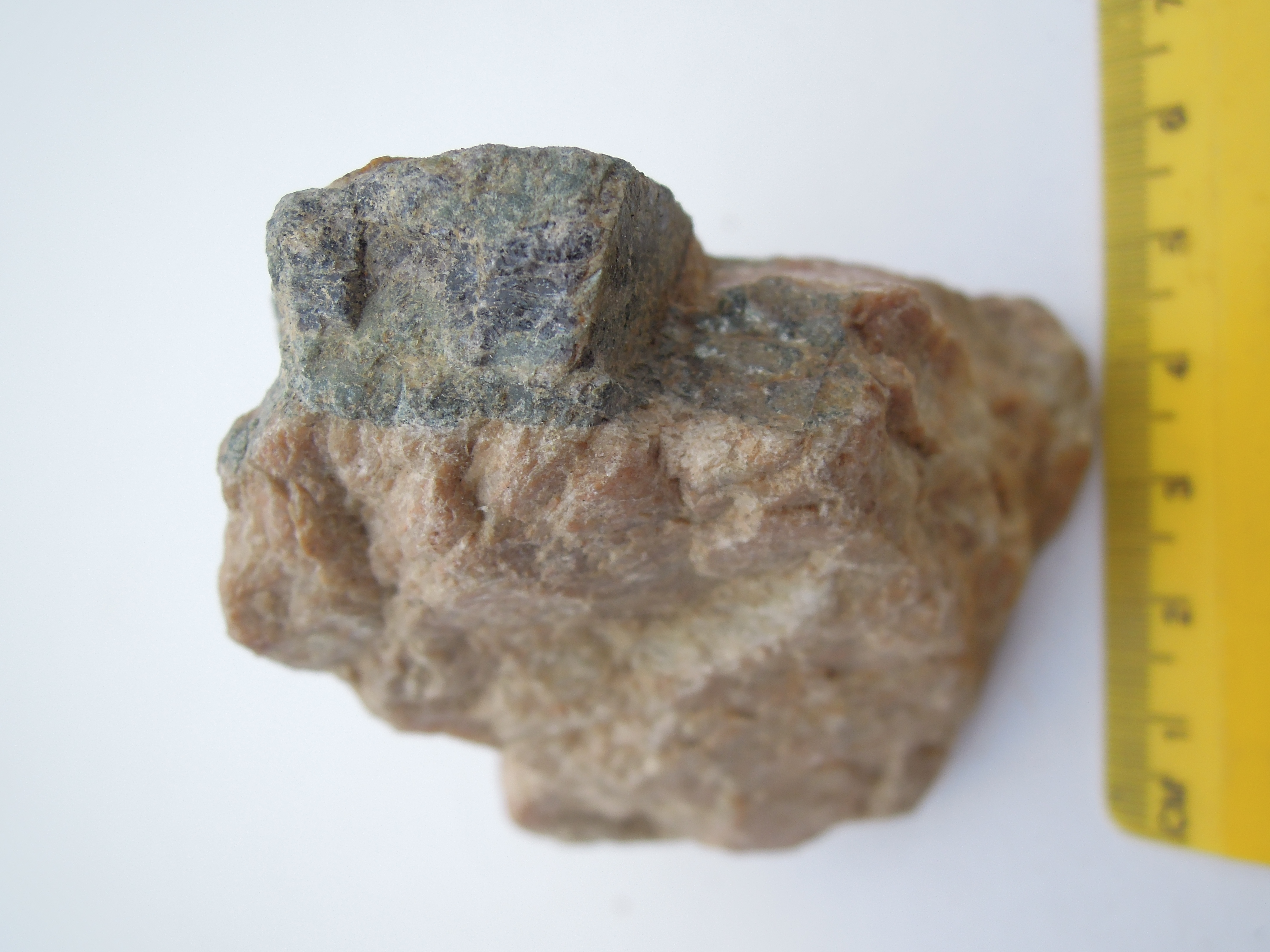 sekaninaite (cordierite) (Fe2+,Mg)2Al4Si5O18 on pegmatite rock locality: Dolní Bory, Czech Republic photo (c) 2013 Jan Helebrant